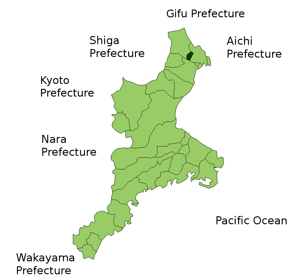 Location Map of Toin in Mie Prefecture, Japan